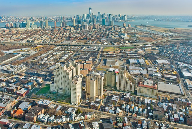 Aerial photo of The Beacon in Jersey City, New Jersey.